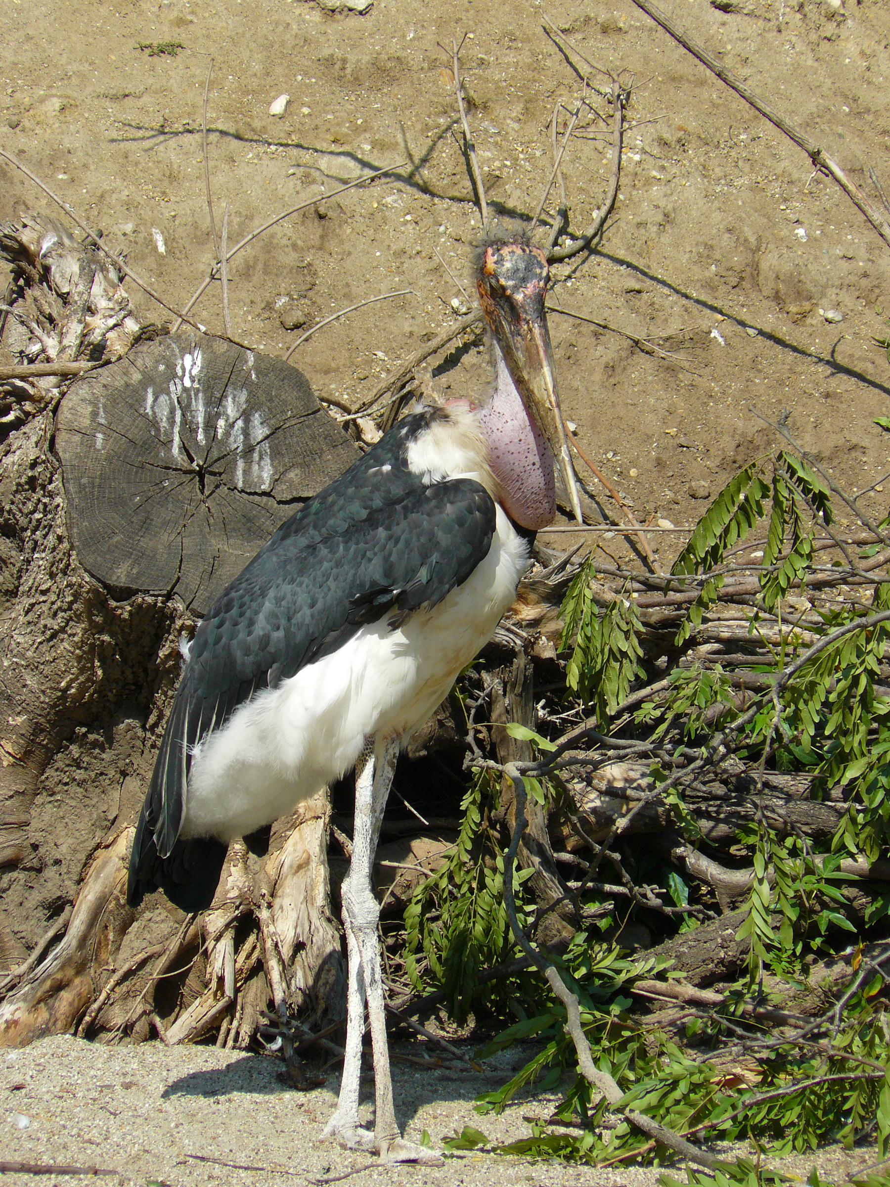 Was taken in the Zoo, Budapest